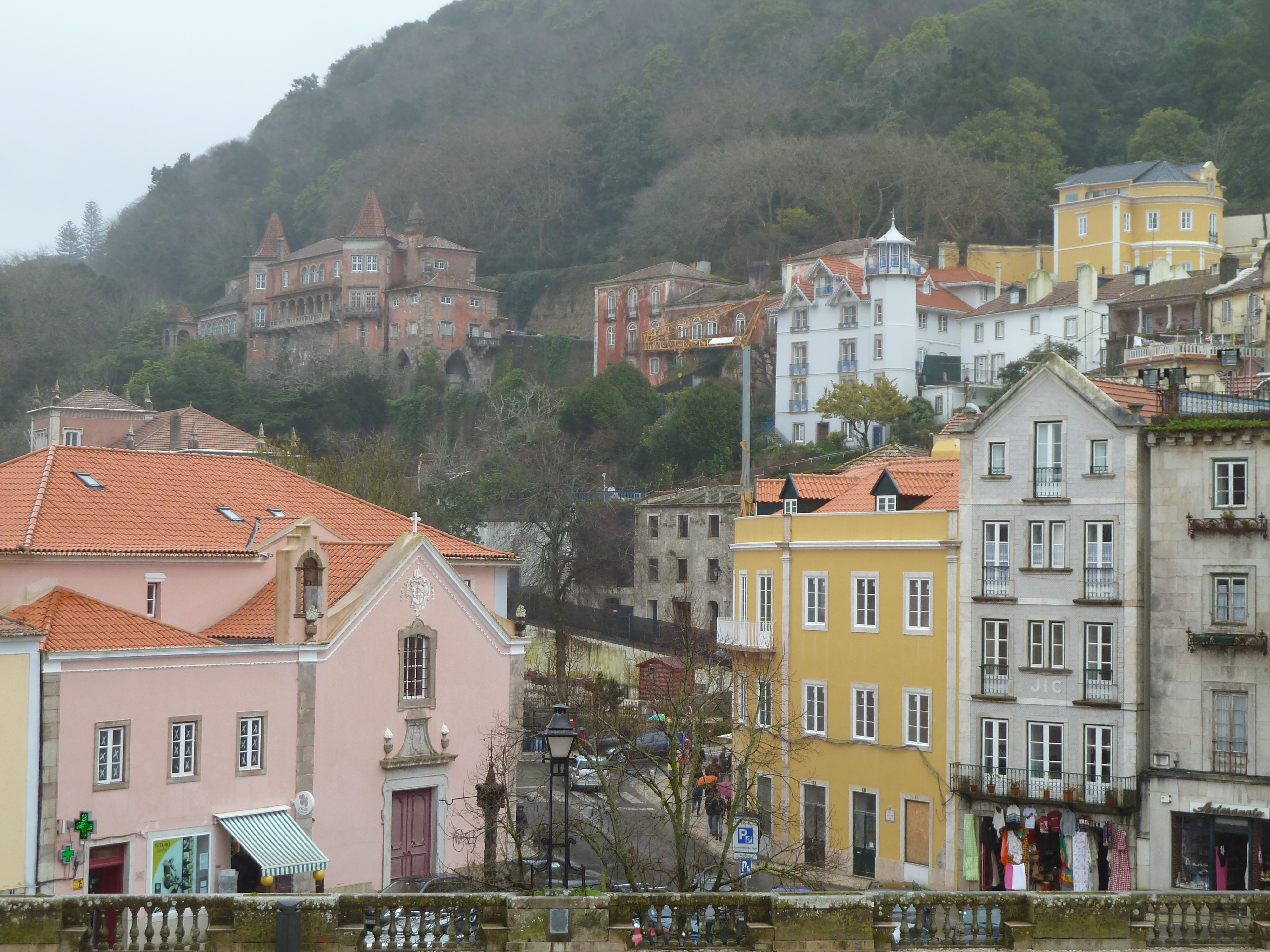 Sintra